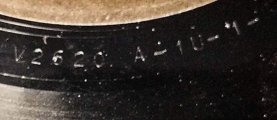 Vinyl record matrix number